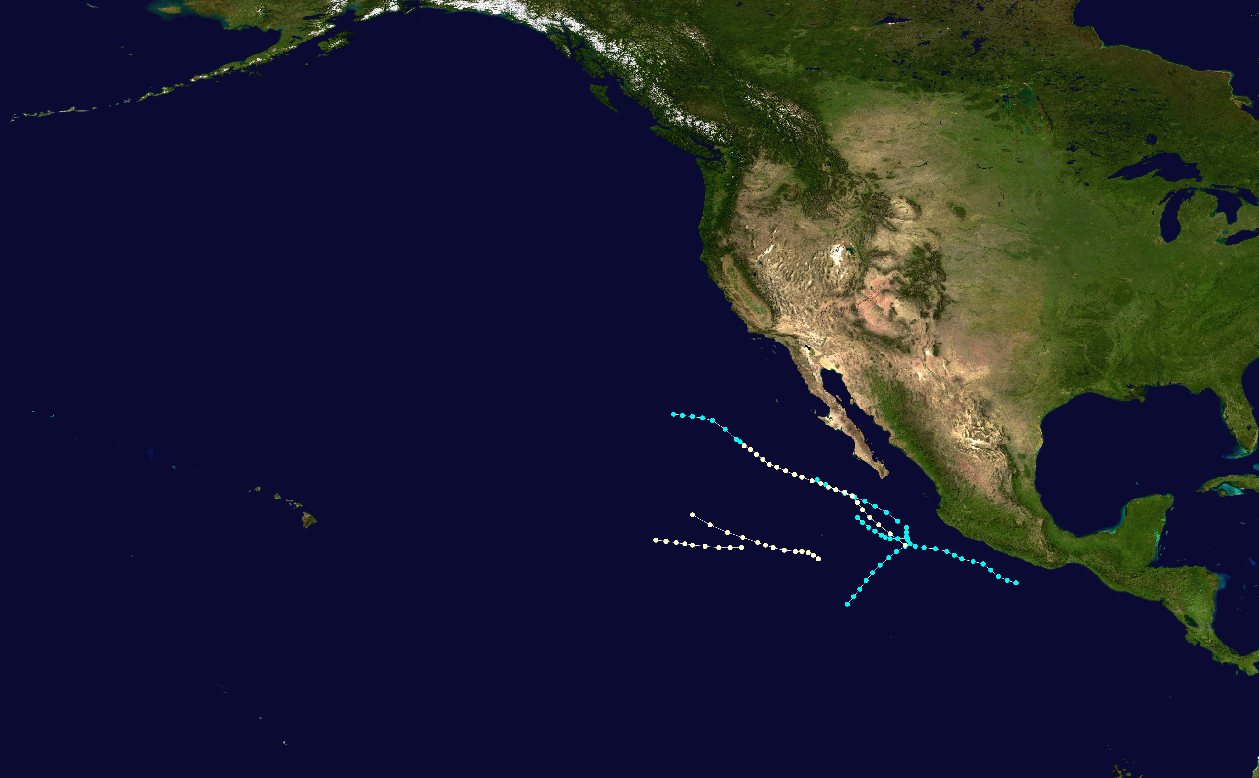 This map shows the tracks of all tropical cyclones in the 1952 Pacific hurricane season. The points show the location of each storm at 6-hour intervals. The colour represents the storm's maximum sustained wind speeds as classified in the Saffir-Simpson Hurricane Scale (see below), and the shape of the data points represent the type of the storm. Saffir–Simpson hurricane wind scale Tropical depression≤38 mph≤62 km/h Category 3111–129 mph178–208 km/h Tropical storm39–73 mph63–118 km/h Category 4130–156 mph209–251 km/h Category 174–95 mph119–153 km/h Category 5≥157 mph≥252 km/h Category 296–110 mph154–177 km/h Unknown Storm typeTropical cycloneSubtropical cycloneExtratropical cyclone / Remnant low / Tropical disturbance